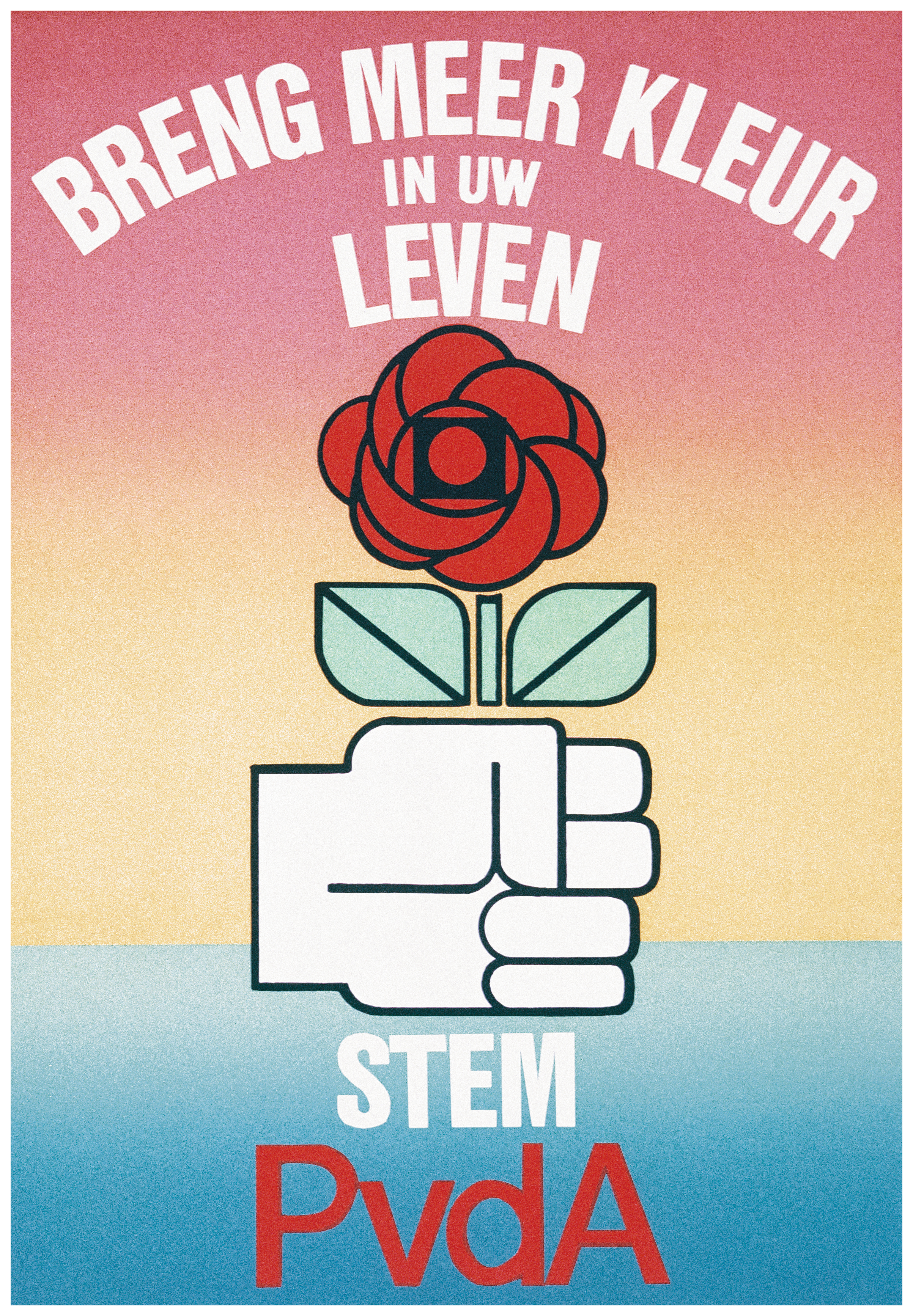 Poster used by the Dutch Labour Party in the 1986 general elections